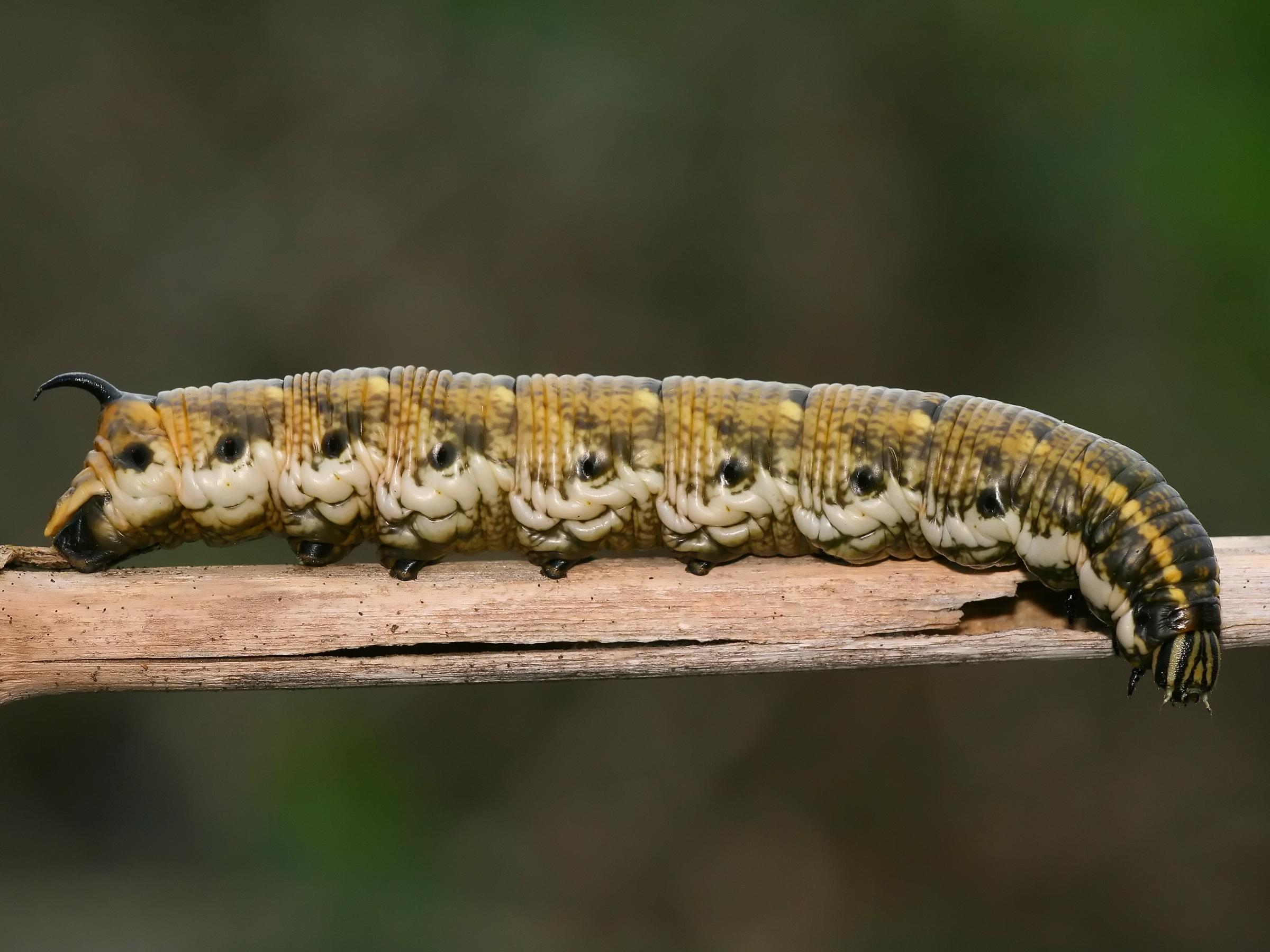 Larva of Convolvulus Hawk-moth (Agrius convolvuli)